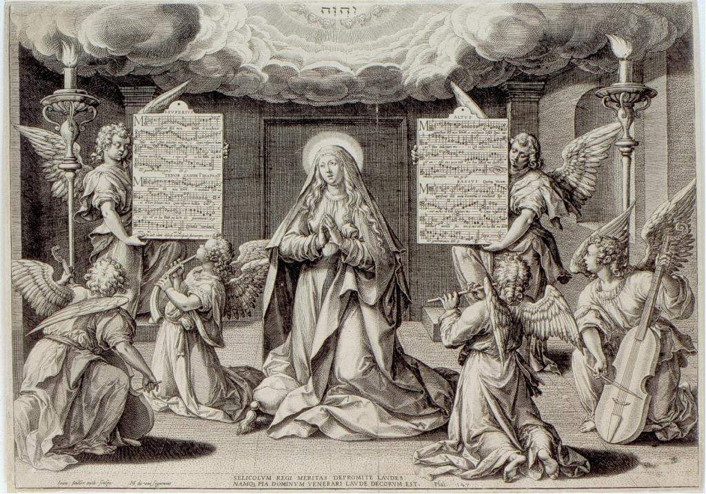 Engraving made by Johannes Sadeler in 1585, after Maarten de Vos. The musical composition is by Cornelis Verdonck